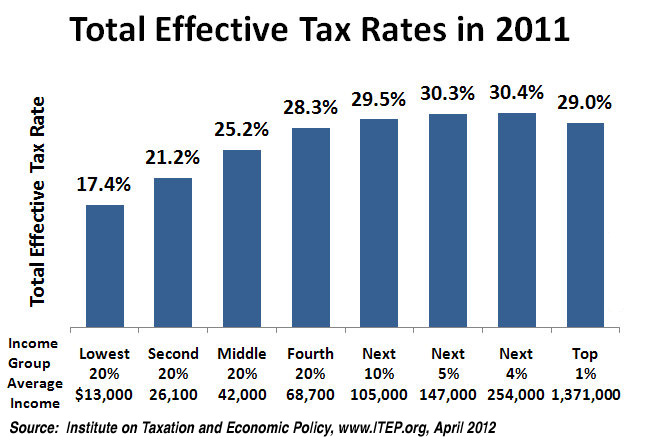 U.S. total effective tax rates (personal and corporate income, payroll, property, sales, excise, estate, etc.) by income level in 2011